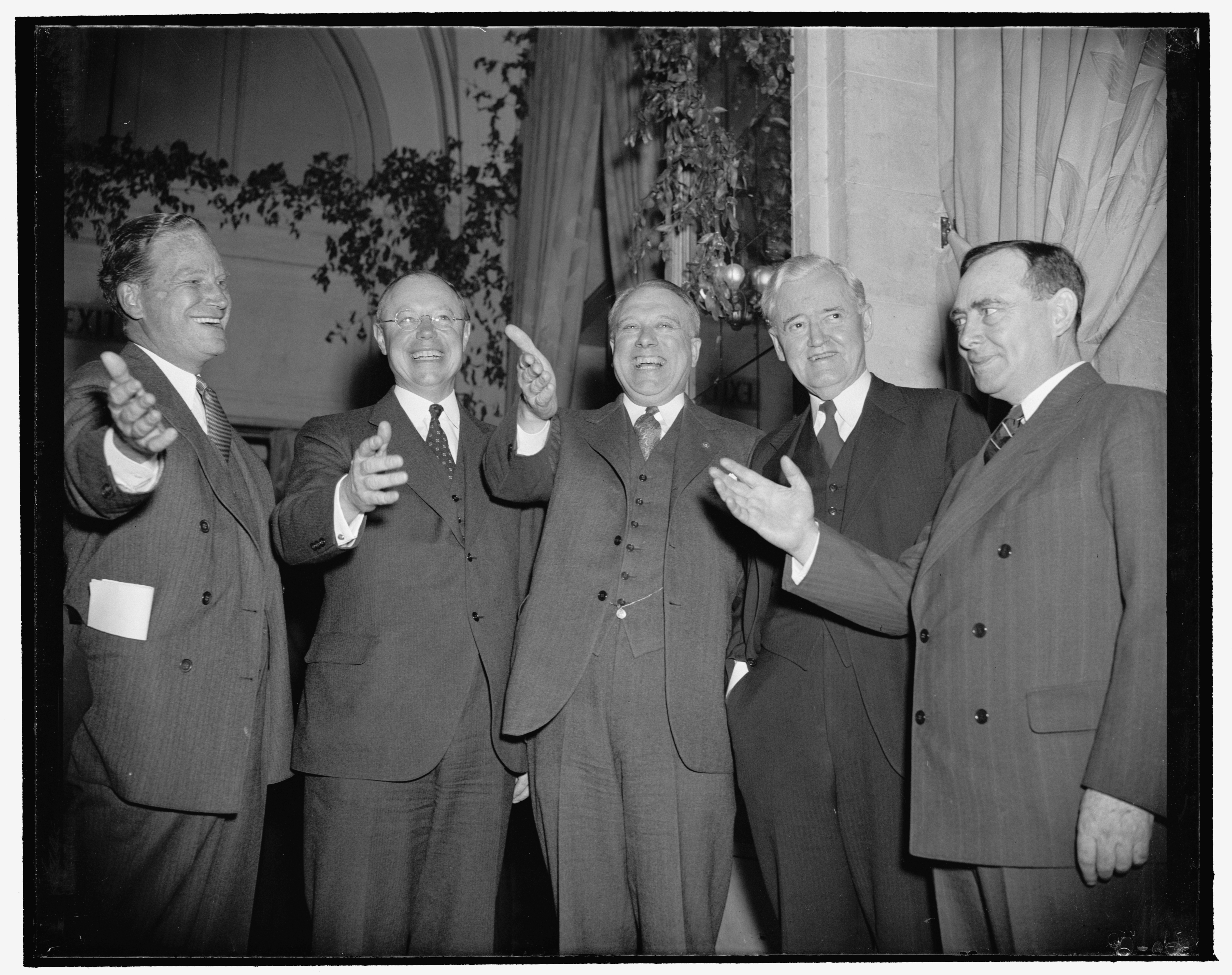 Republicans gathered for a dinner in Washington, D.C., April 20, 1939. These men are giving a salute to 1940, when they forecast victory in the coming presidential elections. They are (left to right) John Hamilton, Chairman of the Republican National Committee Robert Taft, Senator from Ohio Raymond E. Baldwin, Governor of Connecticut Clyde M. Reed, Senator from Kansas Joseph William Martin, Jr., House Minority Leader. Glass negative, 4x5 inches or smaller.